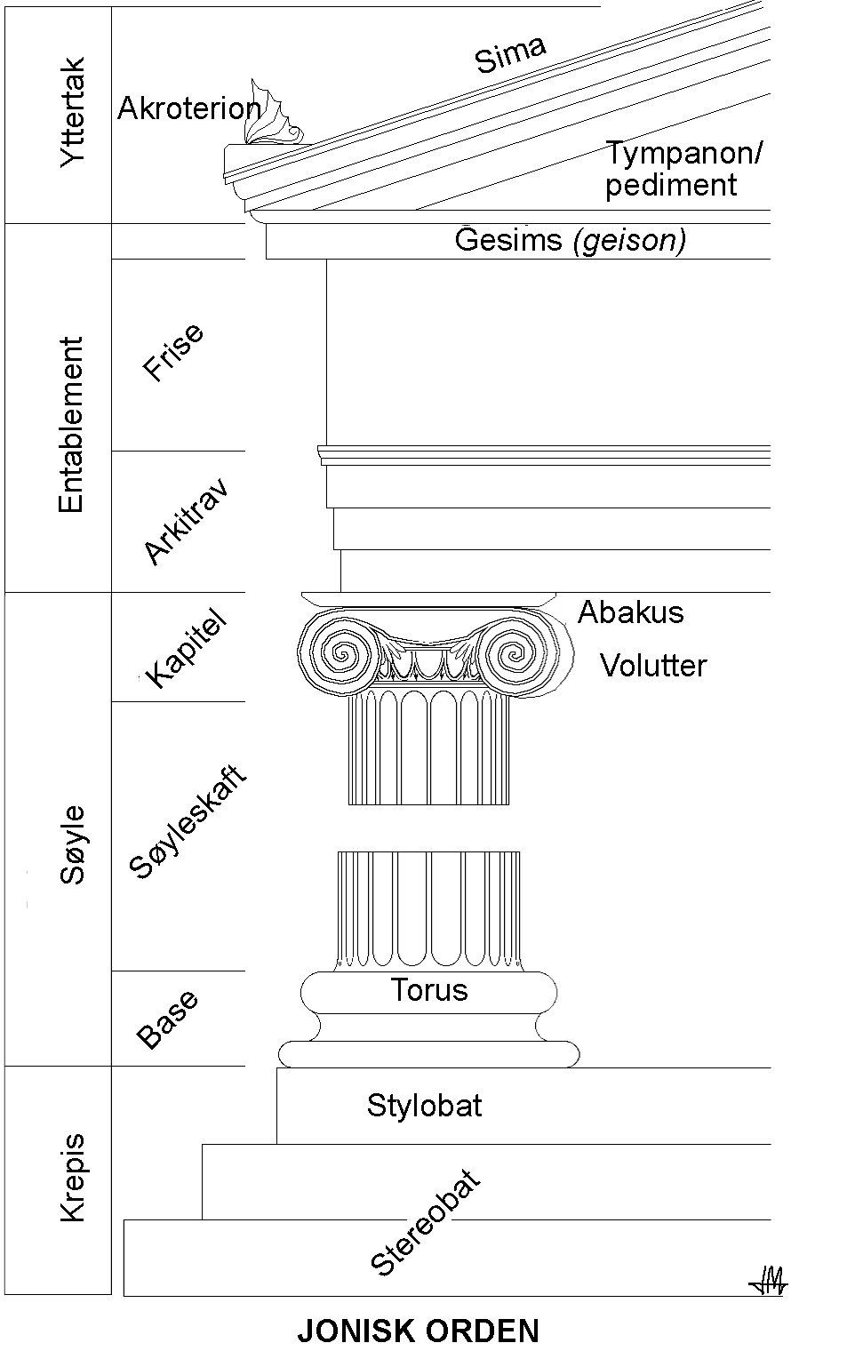 Modification of Soyleorden jonisk.png, correct term in Norwegian